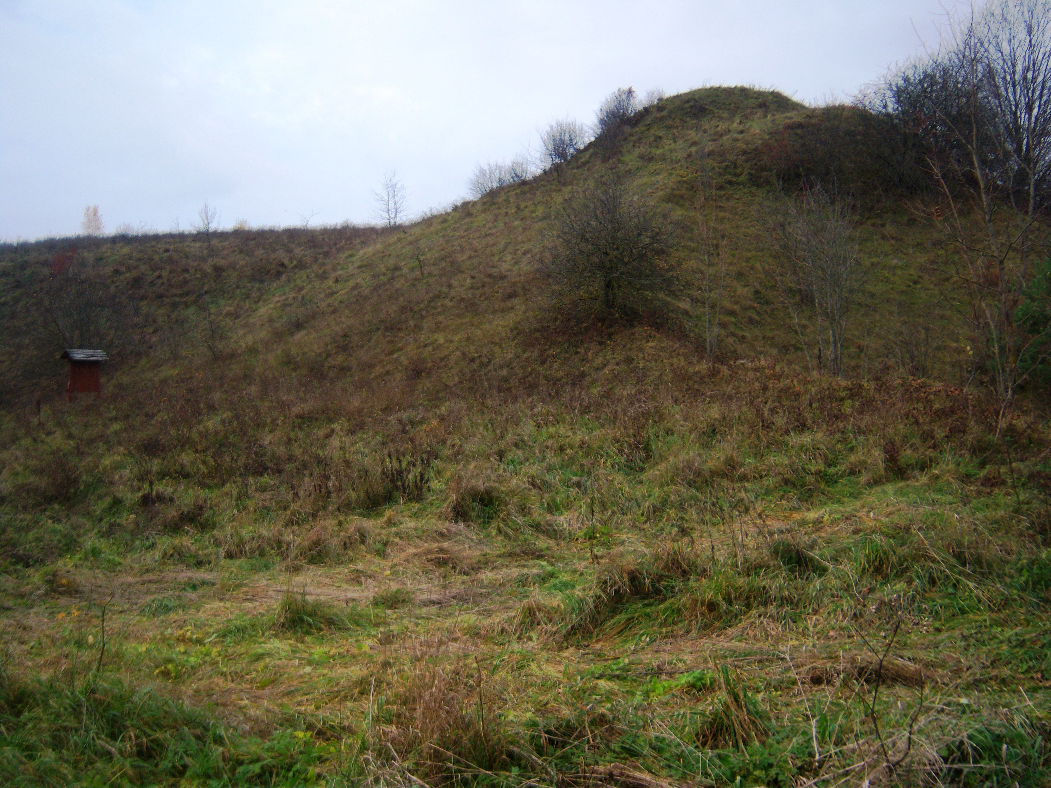 Hillfort in Paparčiai, Kaišiadorys District, Lithuania